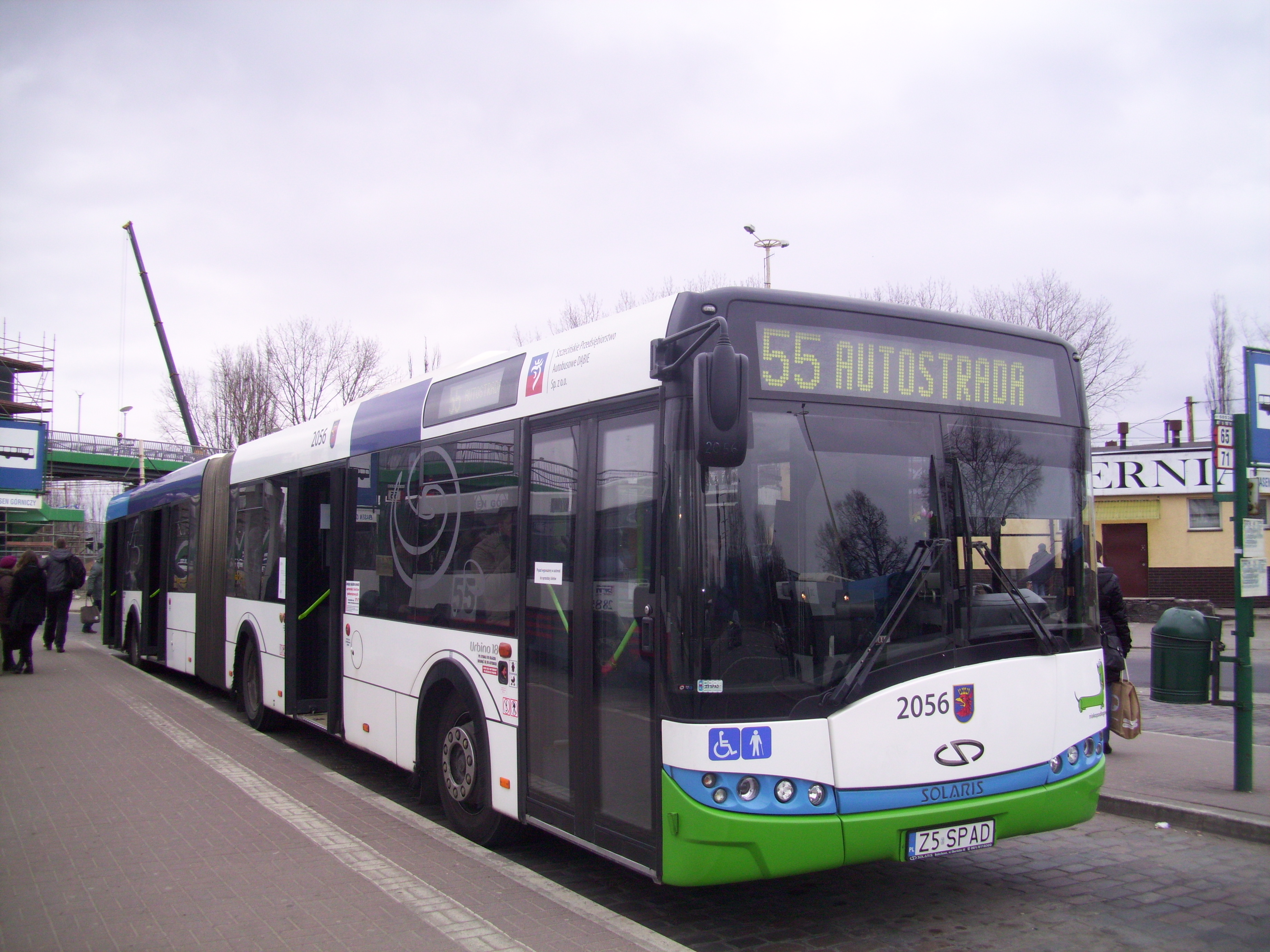 Solaris Urbino 18 bus (#2056, reg. Z5 SPAD) in Szczecin, Poland. Built 2010, SPA Dąbie from Szczecin operator.